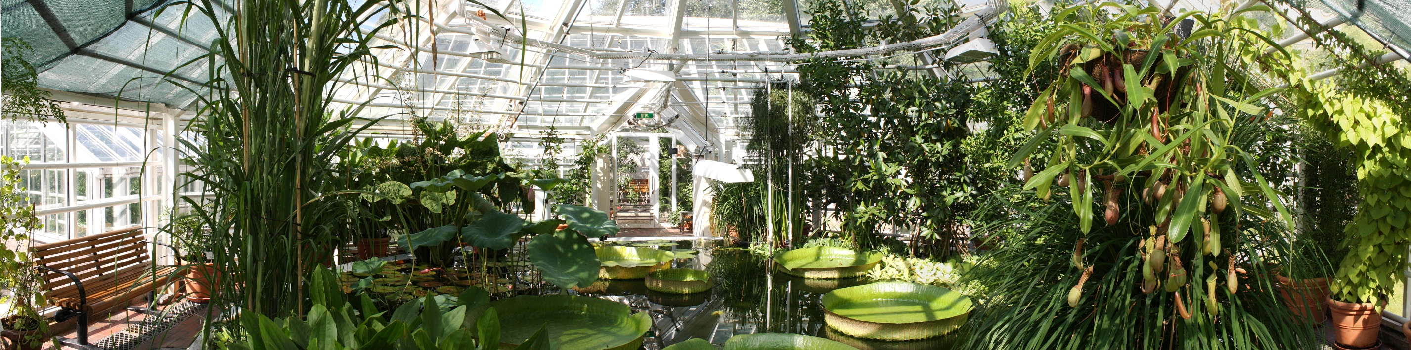 The water lily room of the University of Helsinki's Kaisaniemi Botanical Gardens.